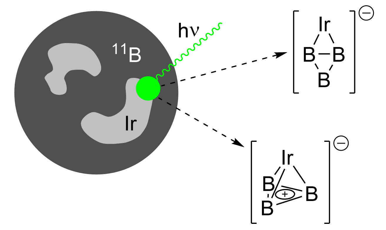 Laser ablation of a mixed target containing Ir and B (with a binder such as Ag or Bi) leads to a cluster beam containing IrB3- moieties.